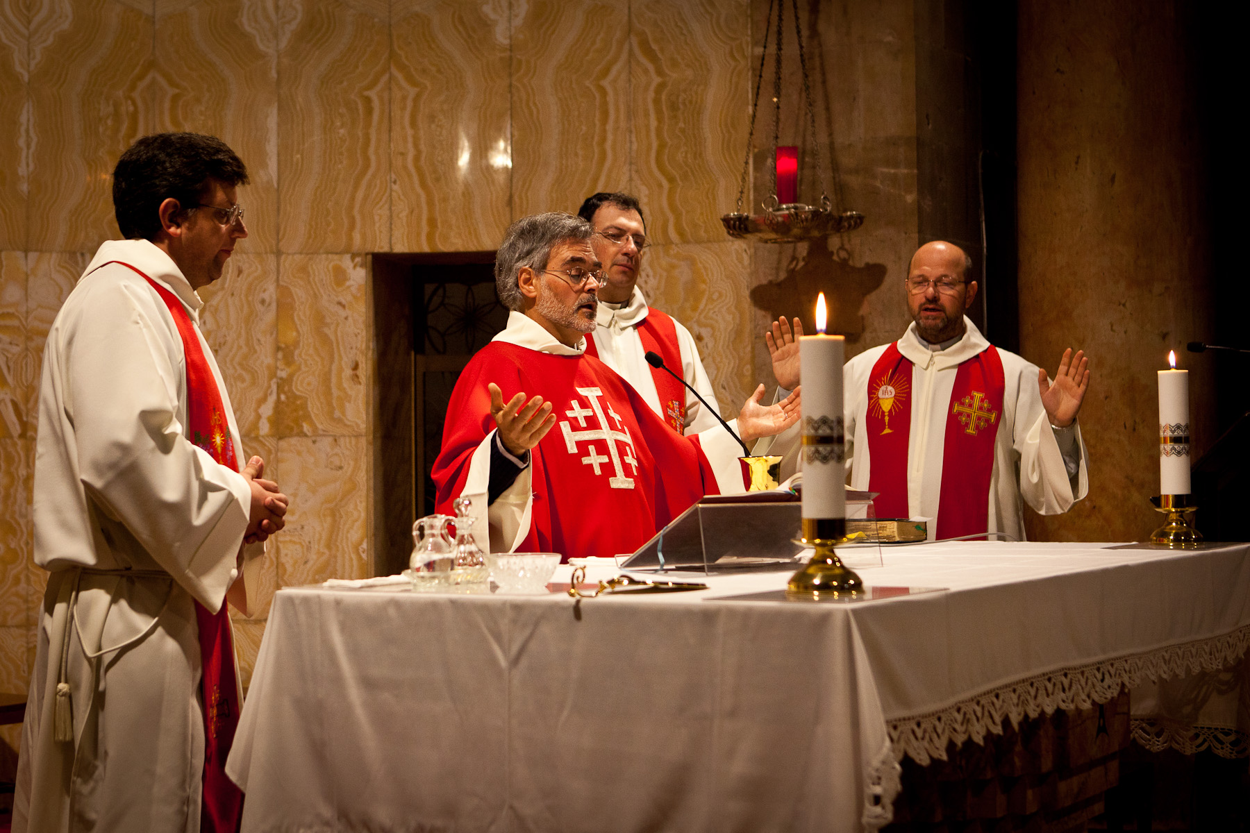 Clergy at Church of All Nations in Jerusalem